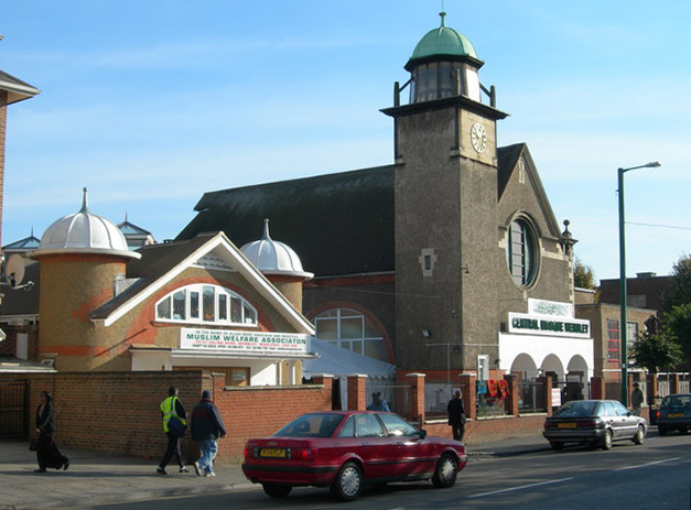 Central Mosque, Wembley This Mosque is converted from a Church -- it is still even shown as a church on the OS Get-a-Map. The change of use is evidence of the way demographics in the area have altered in the last 30 years.